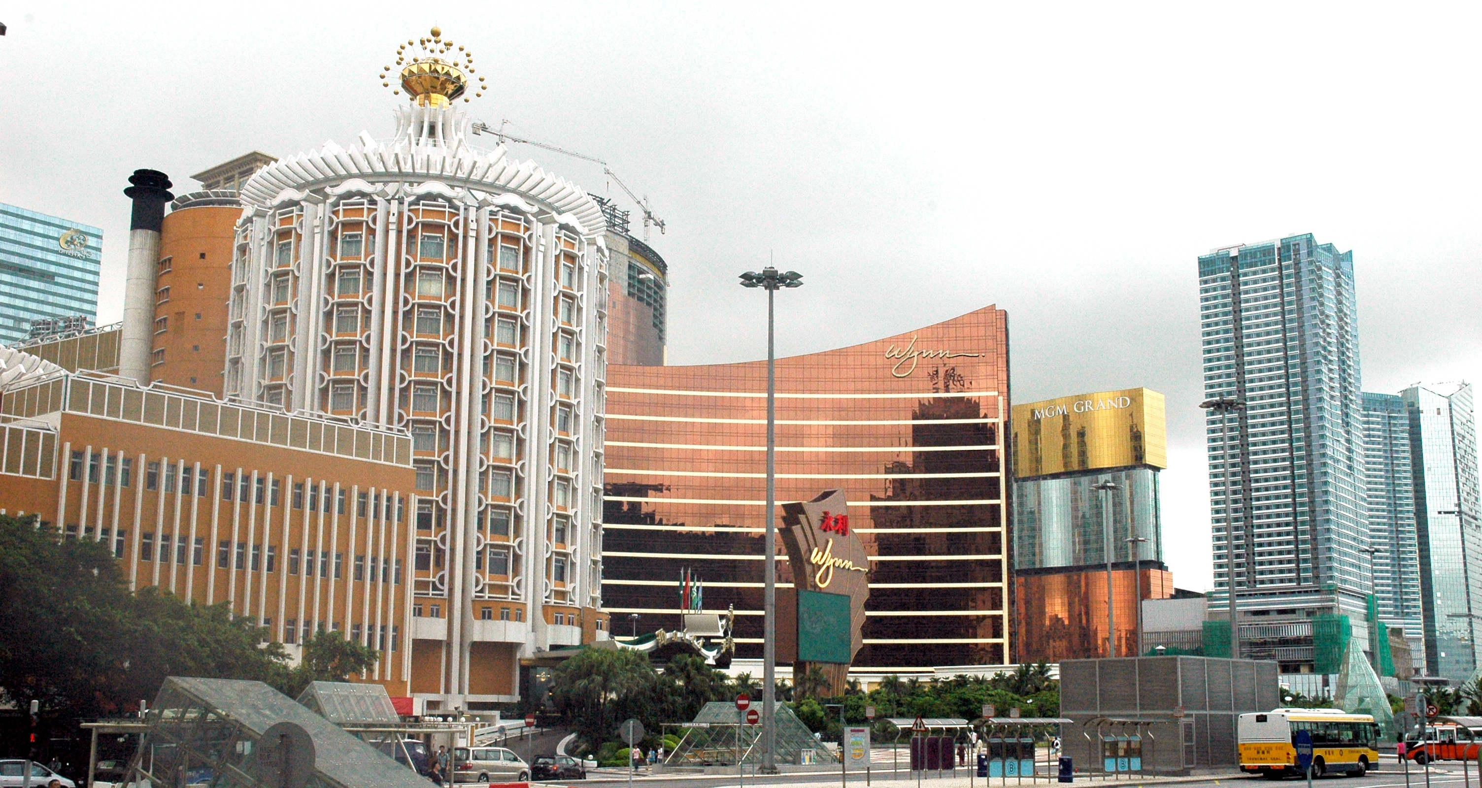 Casinos in Macau. Left to right: Lisboa, Wynn, MGM Grand, Macau.